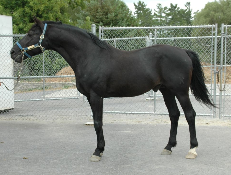 Hannoverian Stallion from RCMP Farm